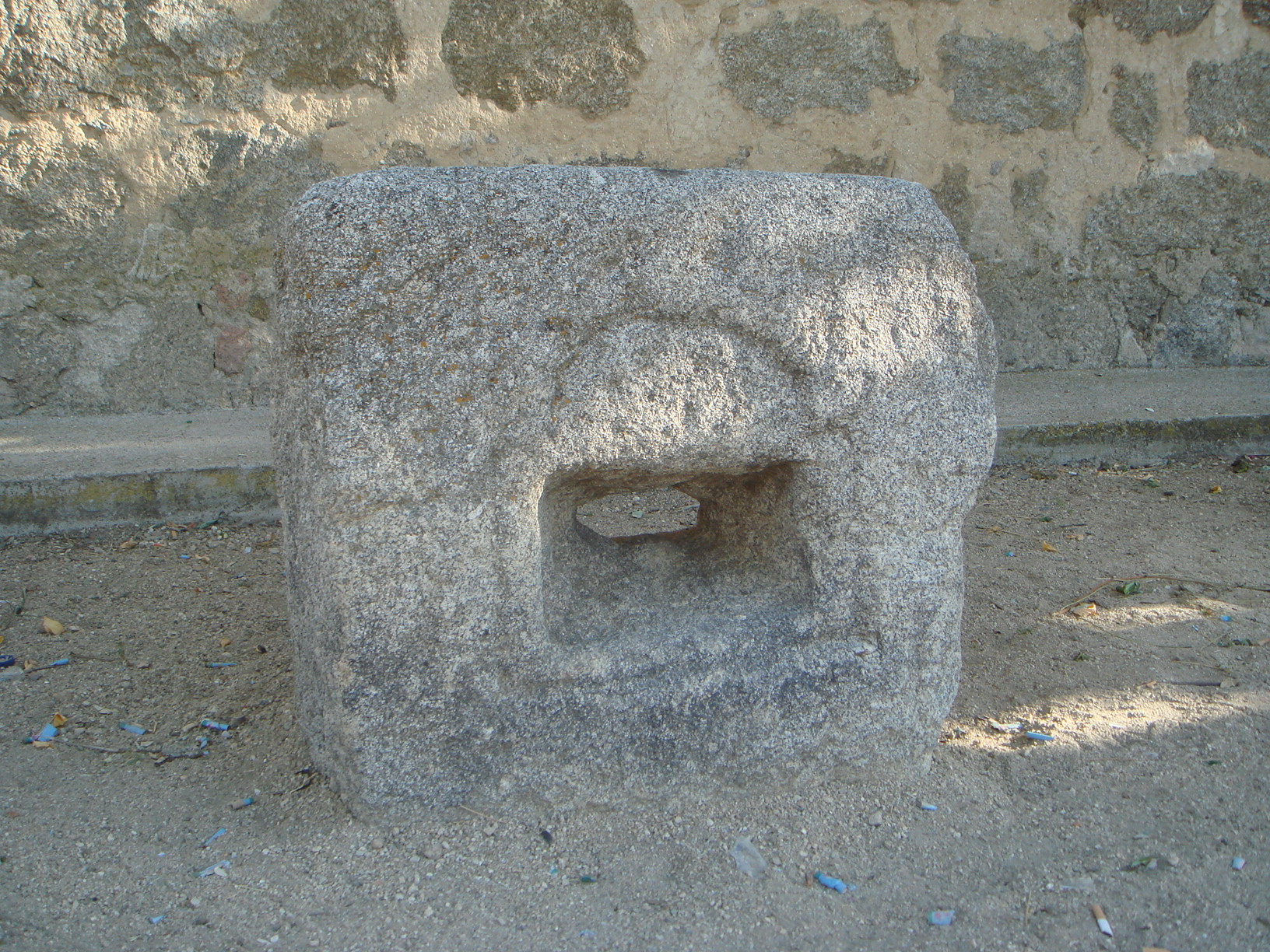 One of the "Verracos" of La Torre, province of Ávila, Spain. Vettone´s sculpture.